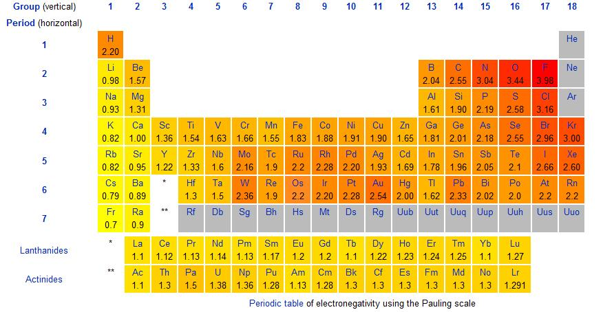 Table of Electronegatives